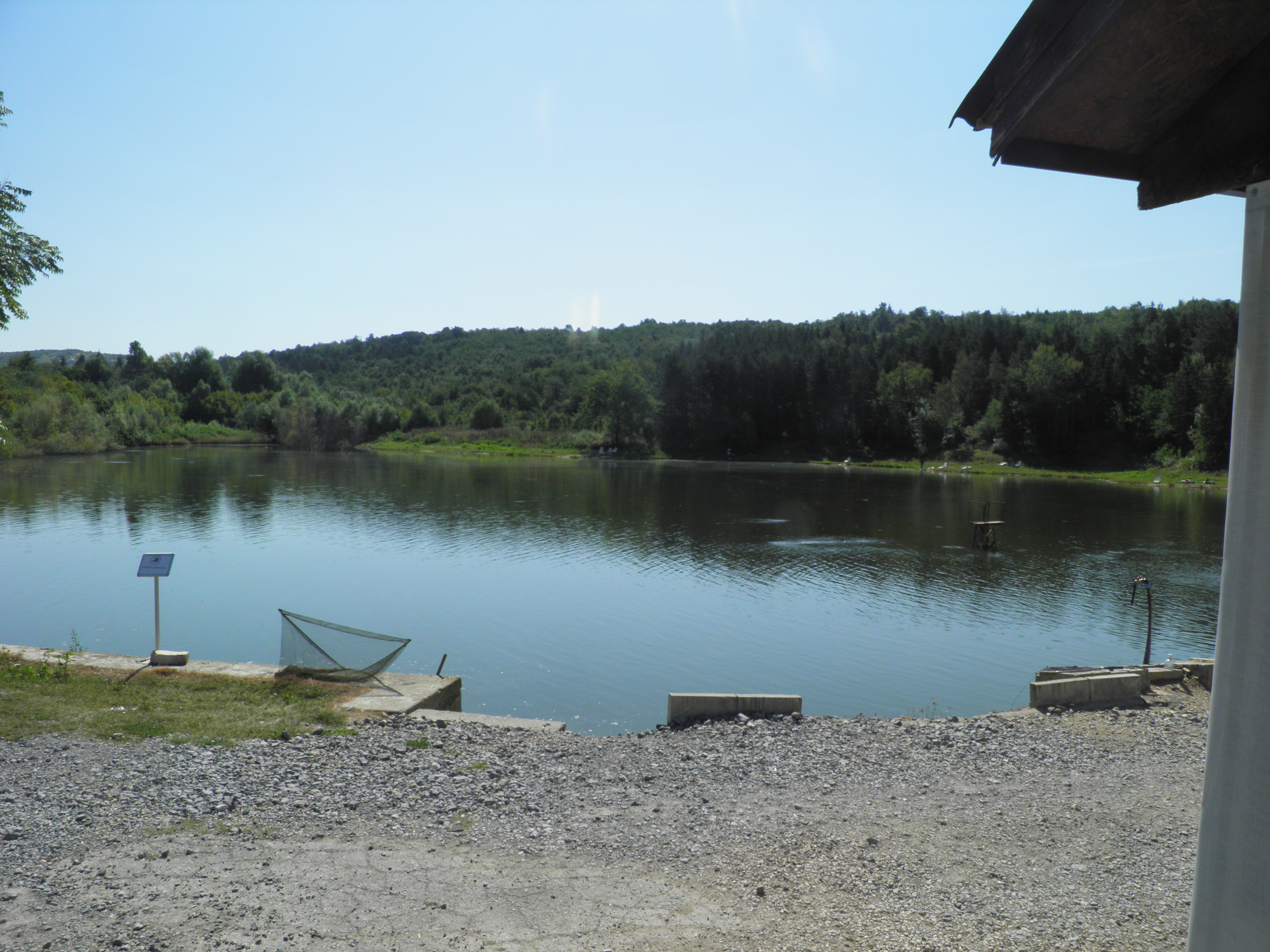 Lake in Veliko Tarnovo